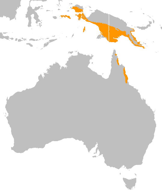 Casuarius distributuion map based on IUCN data.